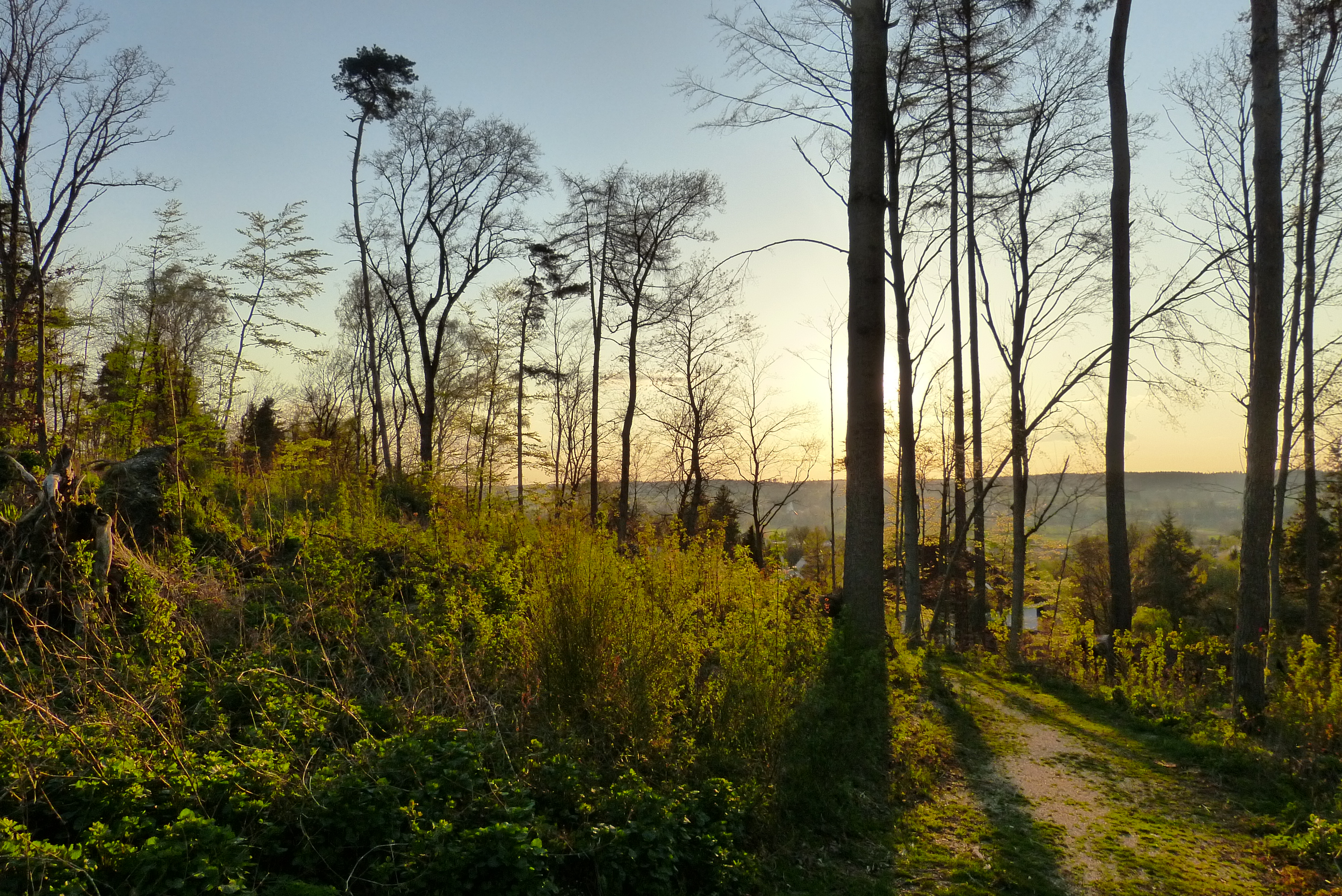 The protected landscape area Kobelwald (Bavaria, Germany) in sunset light (LSG-00296.01)